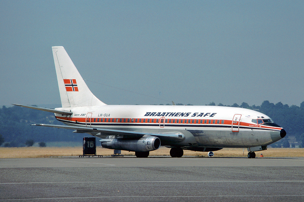 Braathens Boeing 737-200 at Basel Airport in July 1976